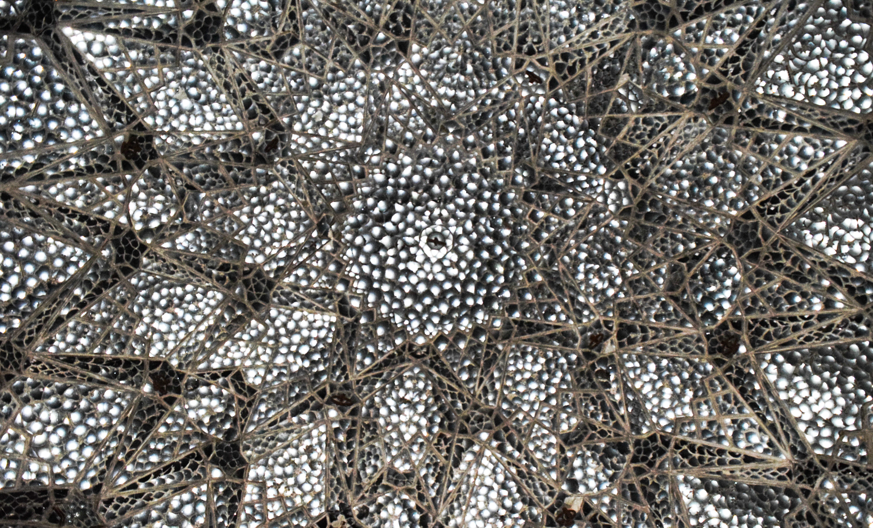 Lahore Fort complex (including Moti Masjid, Naulakha Pavilion, Sheesh Mahal and others) This is a photo of a monument in Pakistan identified as the PB-67